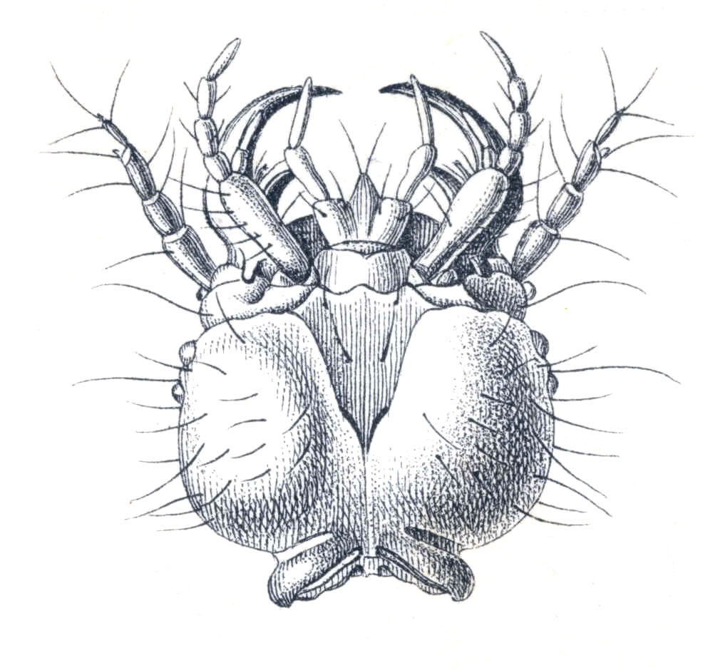 Nebria brevicollis Larva's head